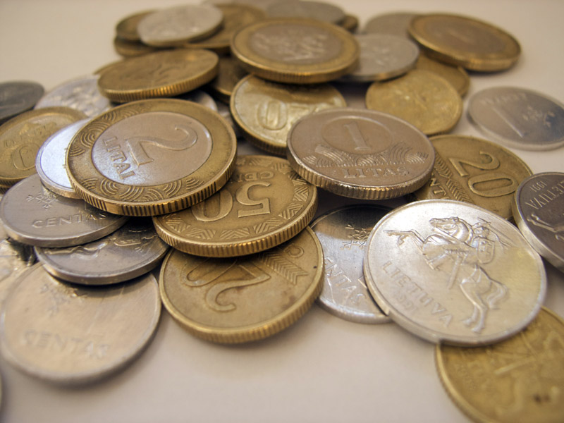 Lithuanian coins (litas and cents)